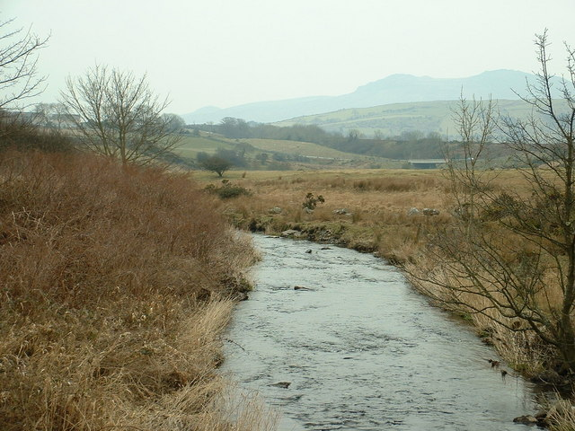 Afon Llyfni. Looking south west. The bridge in the distance is on the 'new' A487 trunk road.